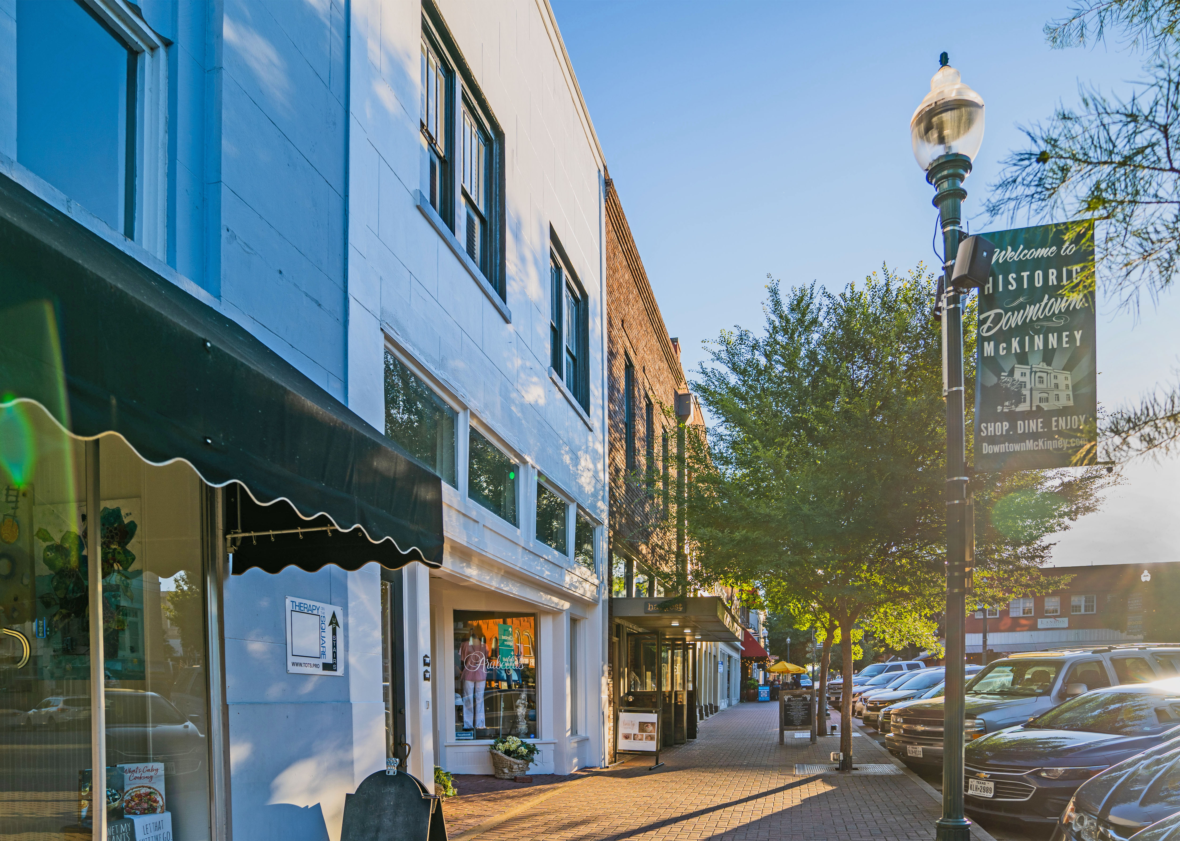 Sunrise on the McKinney Square - Local shops getting ready for the day.